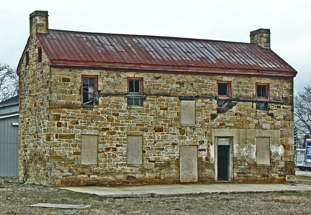 Front of the Mary Worthington Macomb House, located at 490 S. Paint Street (State Route 772) on the southern side of Chillicothe, Ohio, United States. Built in 1815, it is listed on the National Register of Historic Places.